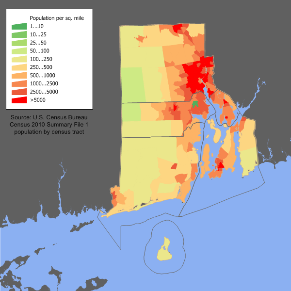 Rhode Island population density map based on Census 2010. See the process description for the data lineage.